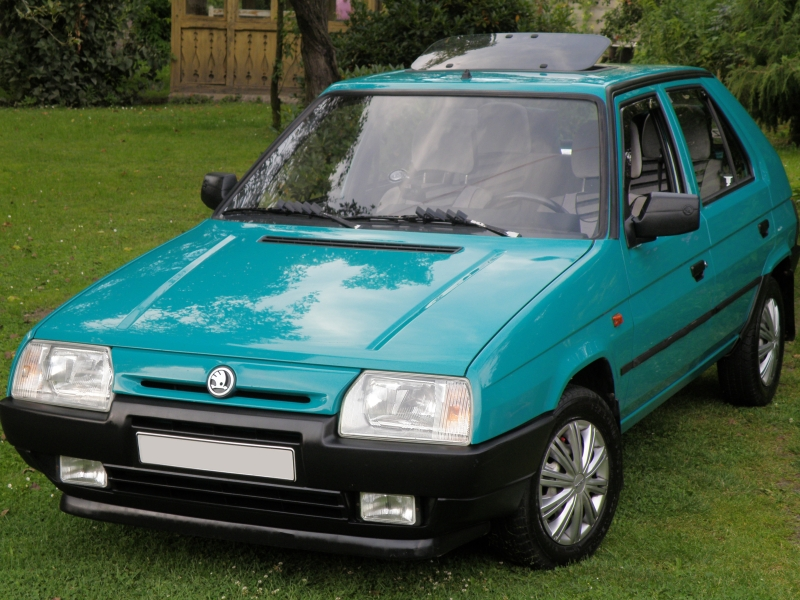 Skoda Favorit LXi 1.3 BMM (Bosch Mono Motronic) made in Czech Republic (1993/1994)